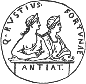 Goddesses of Fortune. (Fortunae Antiates, coin of gens Rustia, from Gerhard, Ant. Bildw. taf. iv, 3, 4.)